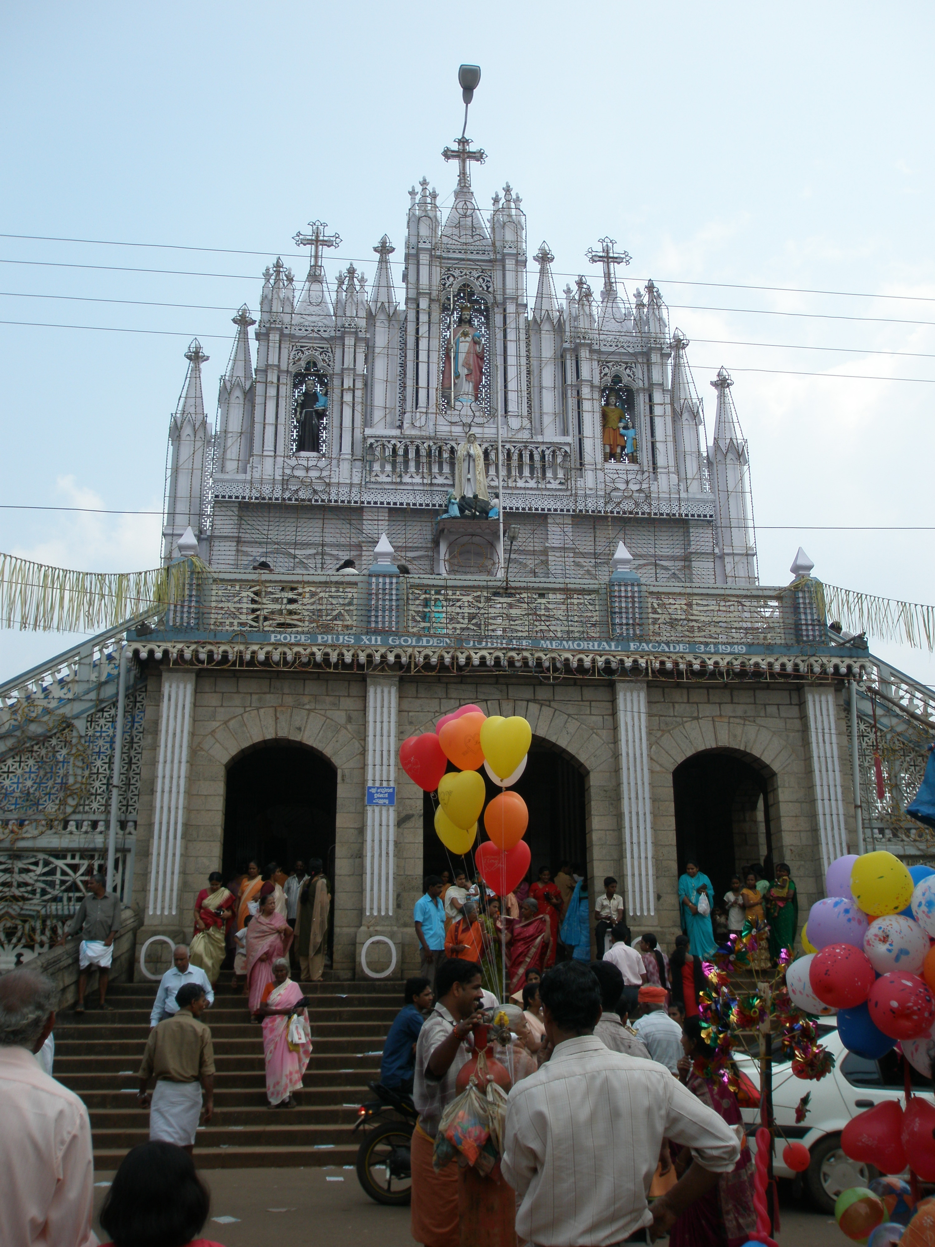 St Antony's Church, Ollur